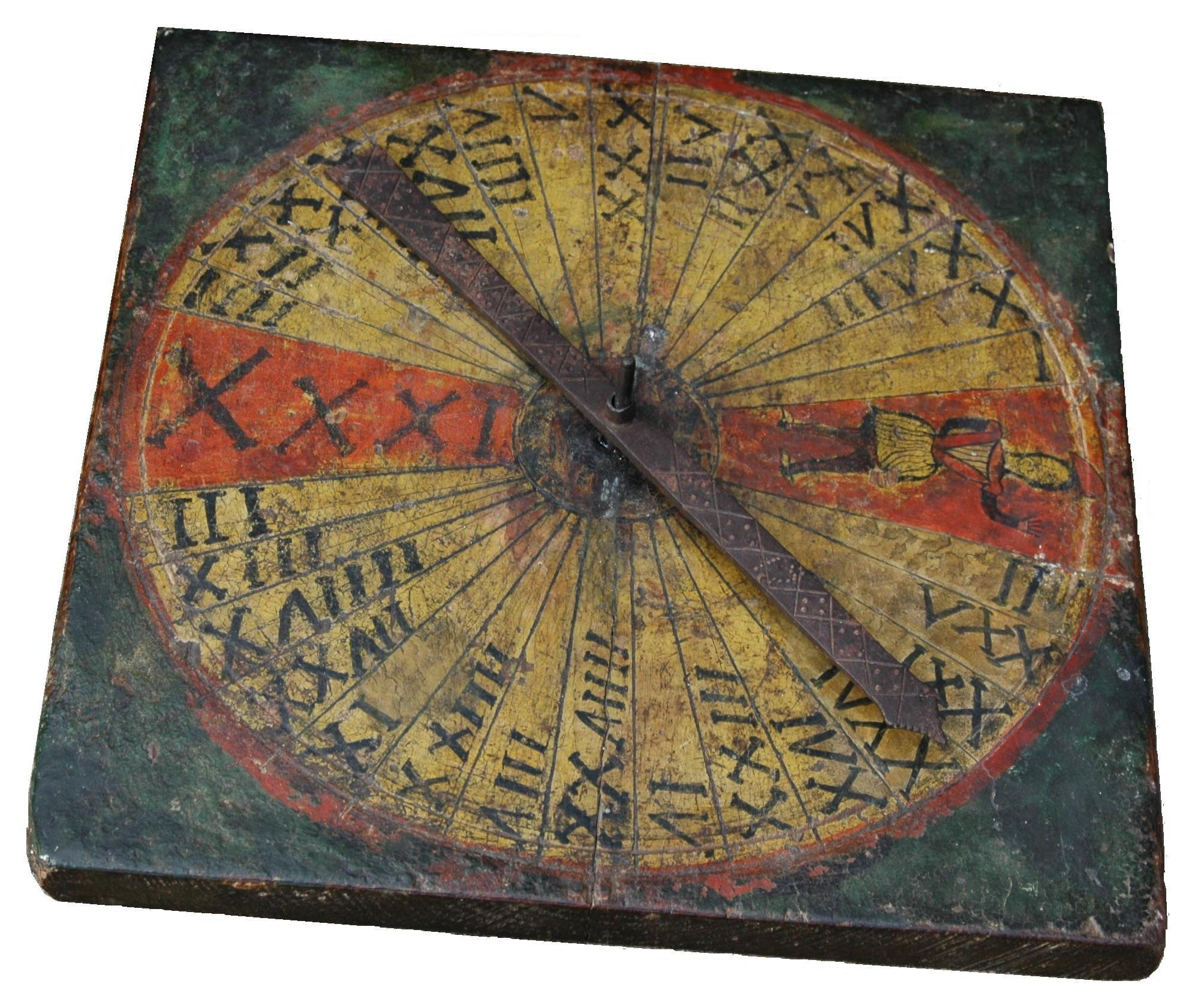 A polychromated virolla dating from 18th Century. This piece belongs to the collection of Saint Chistopher church, in Tavertet.